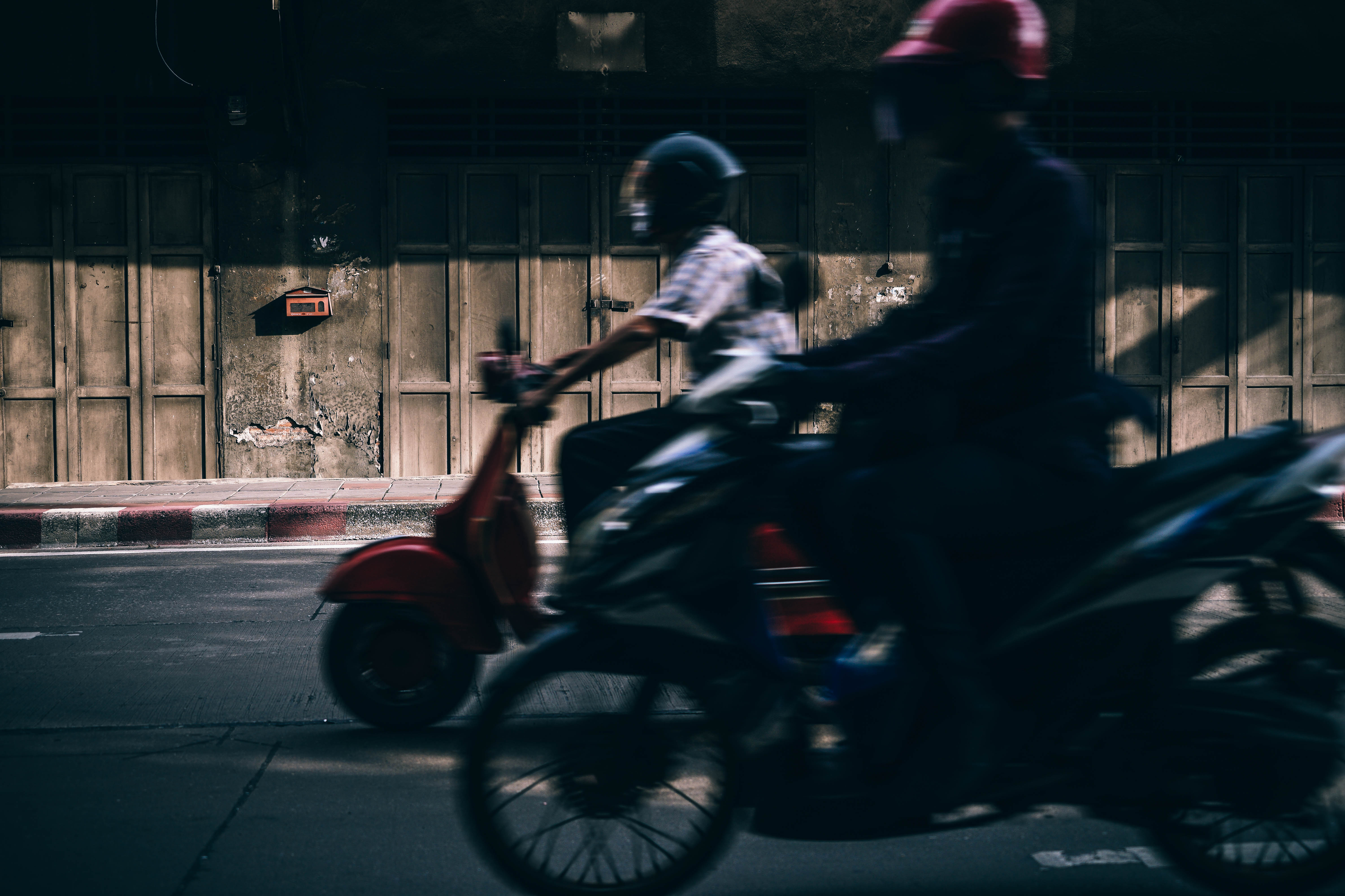 Silom, Bangkok, Thailand